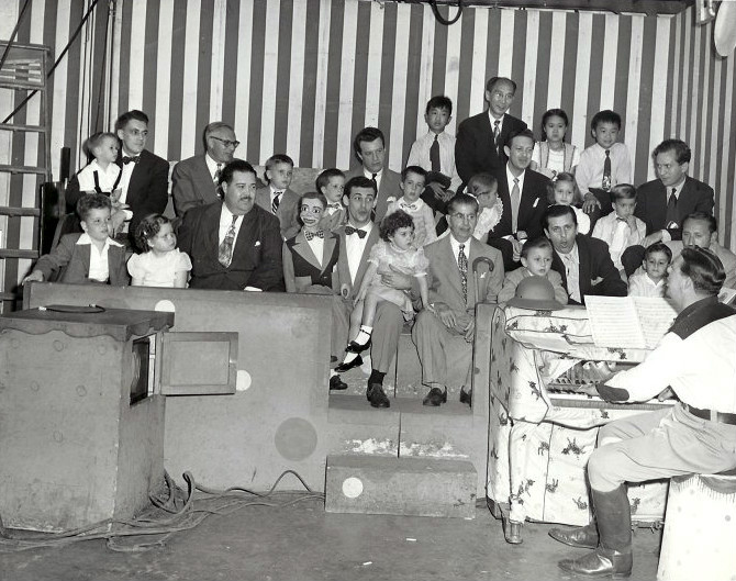 Photo from the children's television program Howdy Doody. This is the "peanut gallery" (where the live audience sat during the broadcast), and the special Father's Day broadcast, featuring many famous fathers and their children in the audience. First row, from left: New York Councilman Treuligh, ventriloquist Paul Winchell with Jerry Mahoney and his oldest daughter on his lap, announcer Andre Baruch, comedian Morey Amsterdam, unknown father and son. Row 2, from left: Steve Collins, writer Bennett Cerf, announcer John McCaffery, actor and singer Earl Wrightson, Ted McCrary. Row 3: James Peng. Buffalo Bob Smith is at the piano.